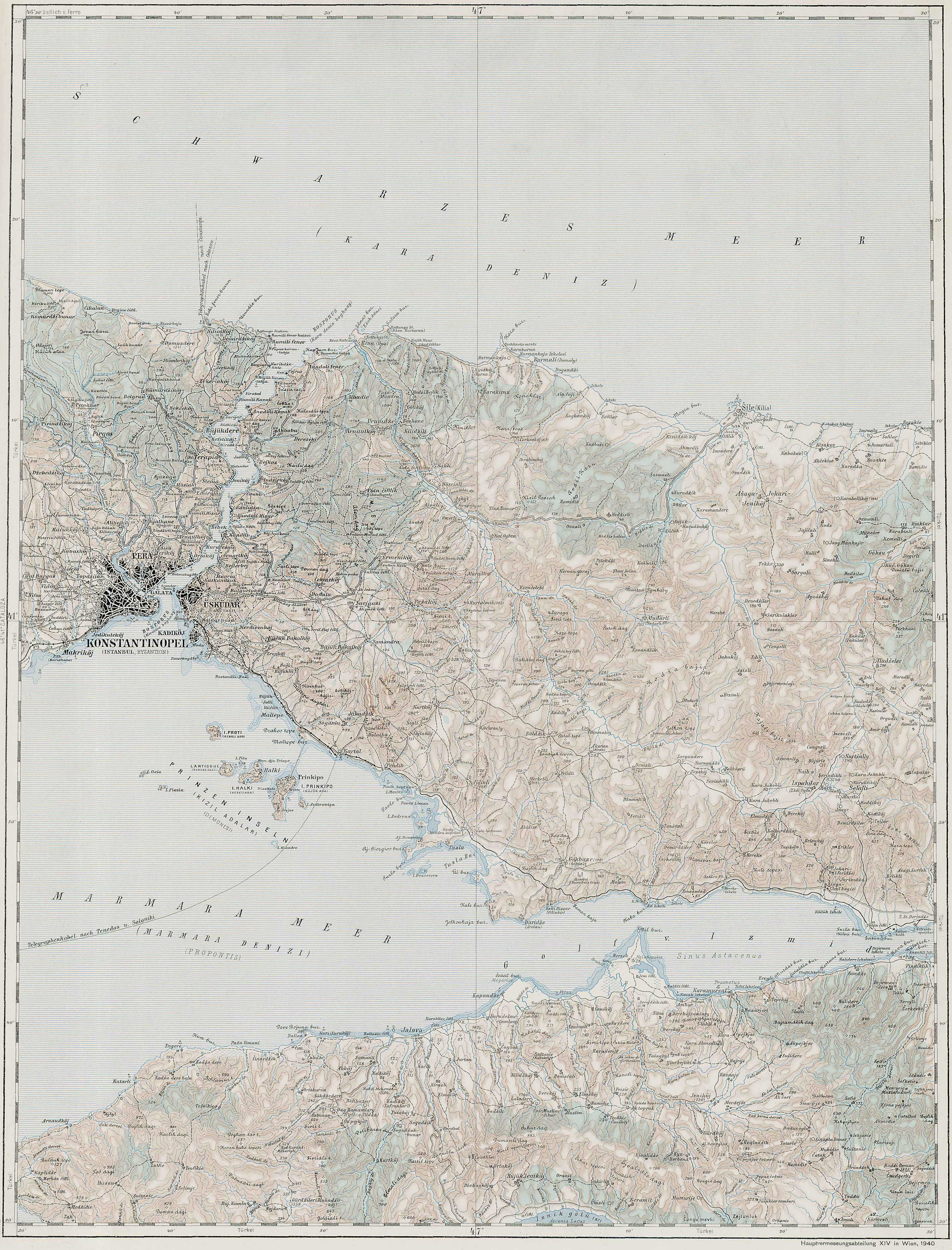 3rd Military Mapping Survey of Austria-Hungary - Istambul